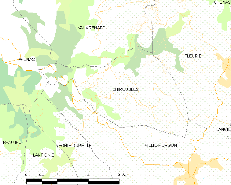 Map of French municipality